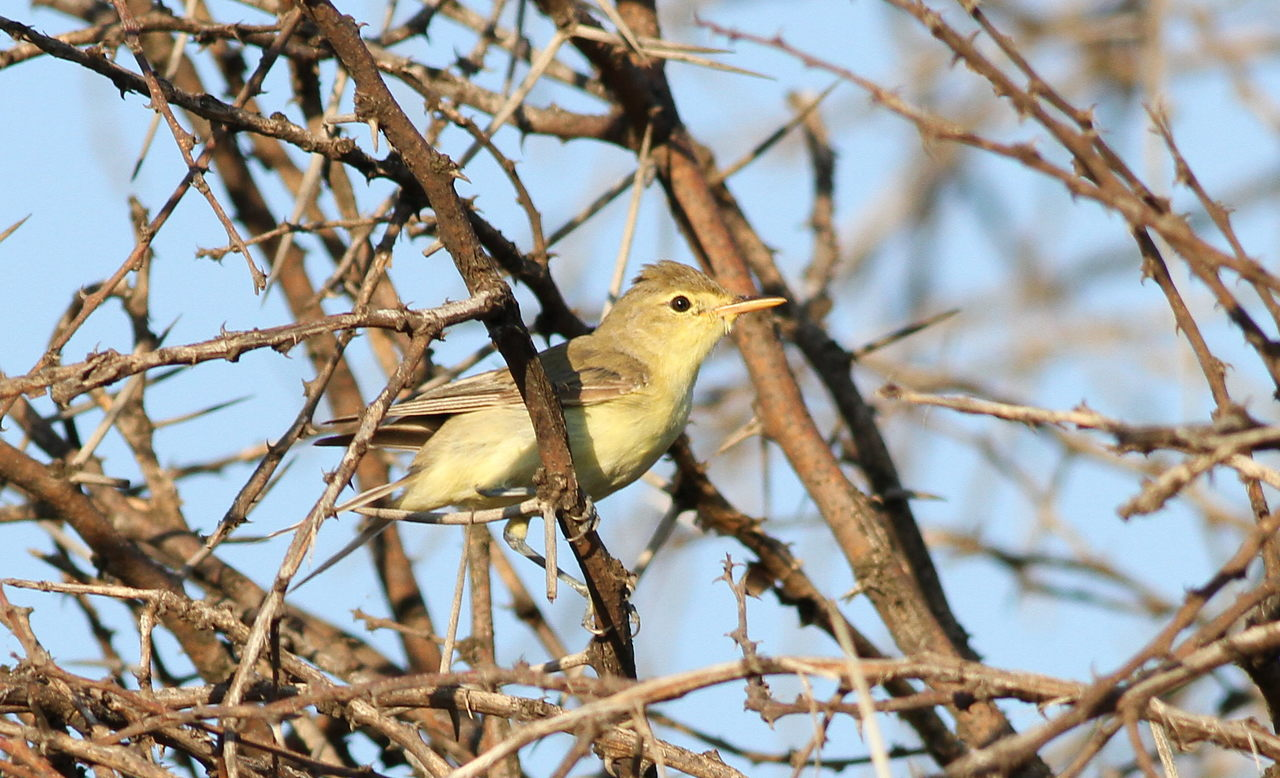 Icterine warbler, Hippolais icterina, at Dinokeng Game Reserve, Gauteng/Limpopo, South Africa